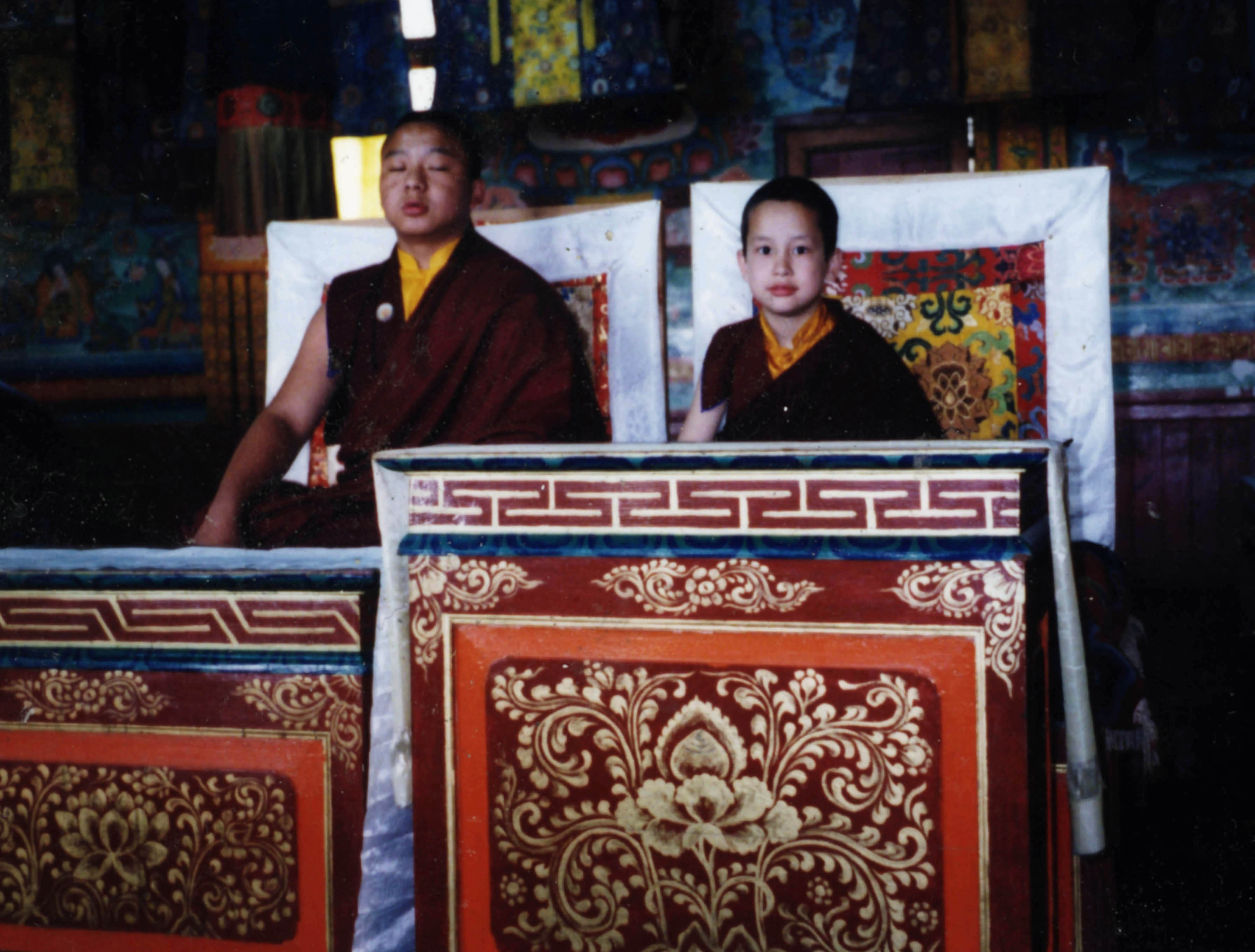 Tulku Dezhung Rinpoche IV on his throne 1999-04-29